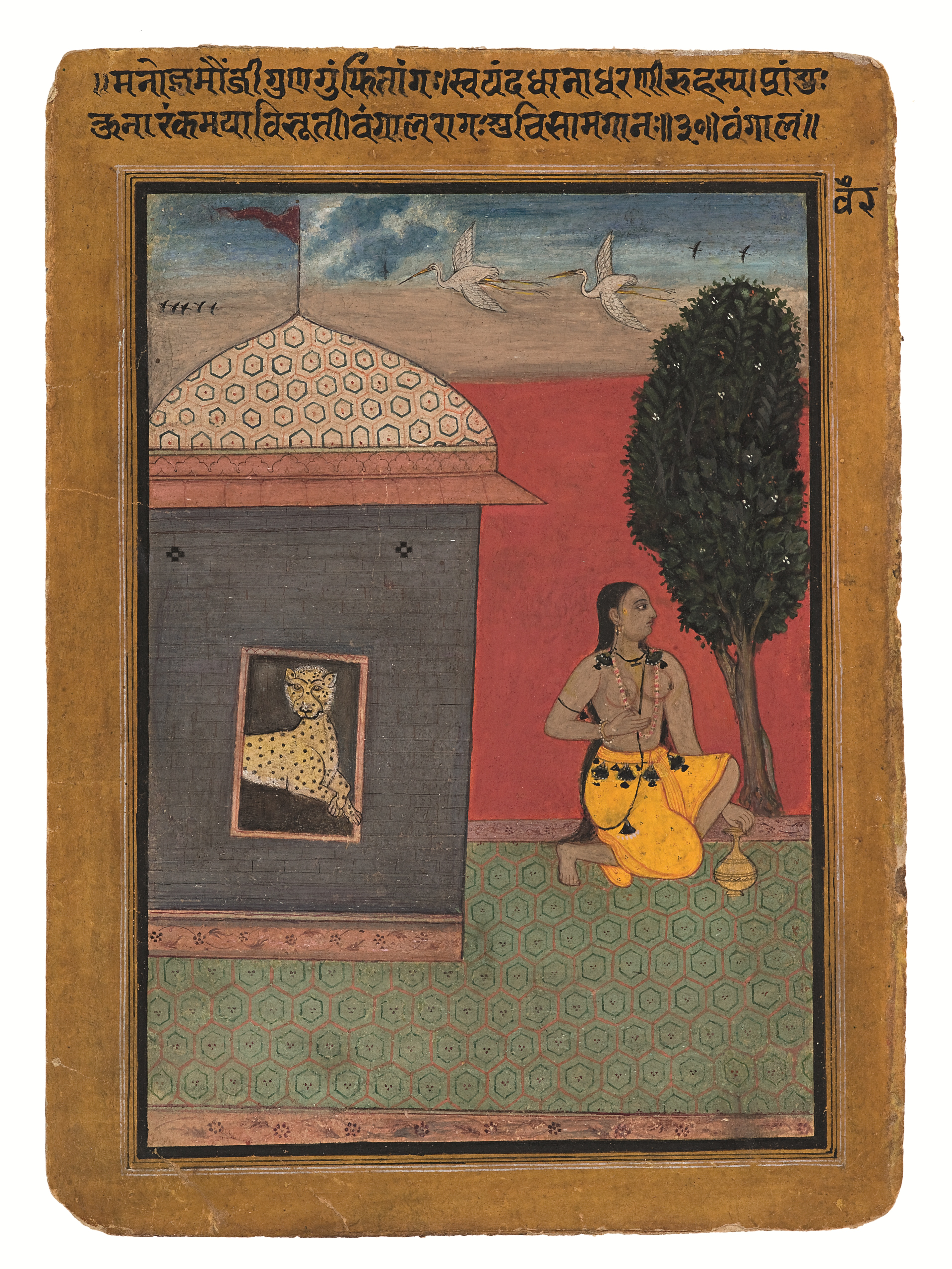 Vangala Ragini of Bhairava Raga, Rajasthan, Marwar Jodhpur, c. 1605, Gouache on paper, 20.5 x 14.8 cm, Claudio Moscatelli Collection